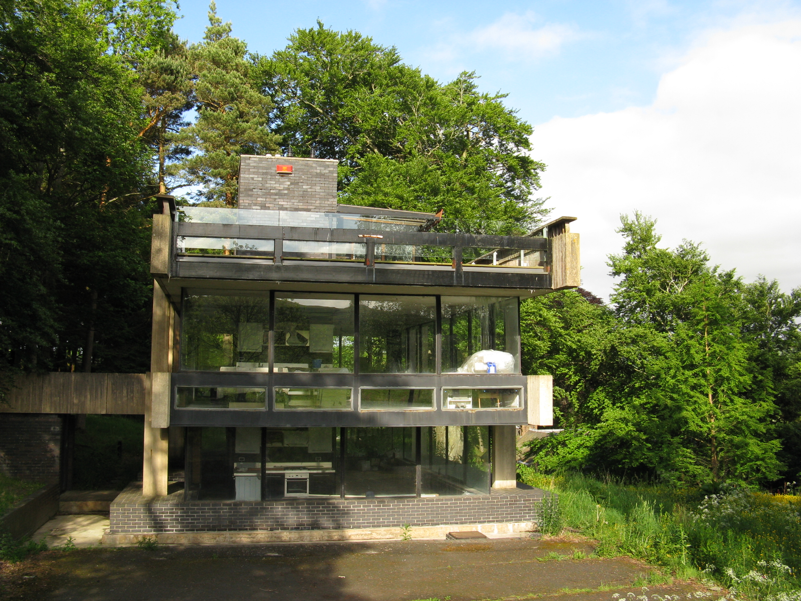 Former Bernat Klein Studio, near Selkirk in the Scottish Borders